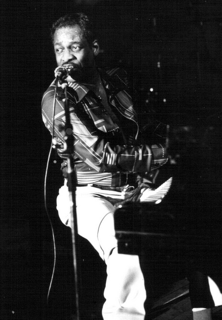 American Rhythm and Blues pianist and singer Little Willie Littlefield in France